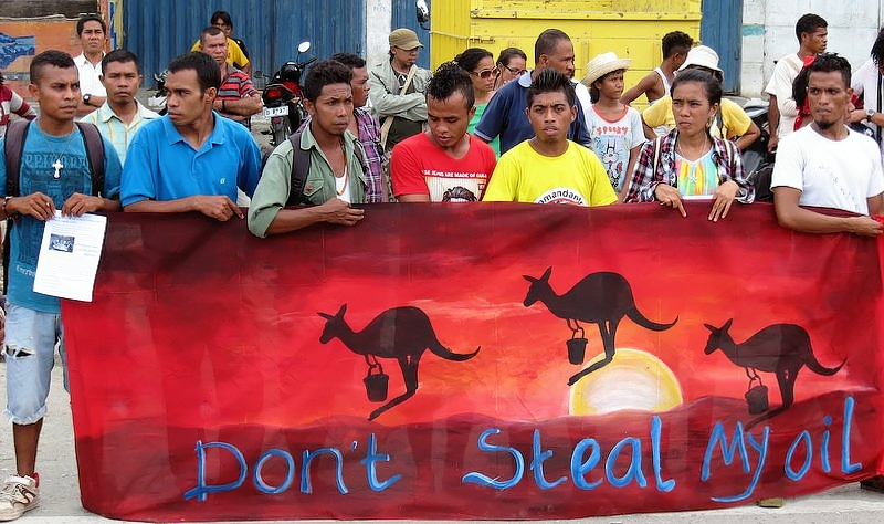 Demonstration in front of Austeralian embassy against CMATS-treaty and its circumstances.